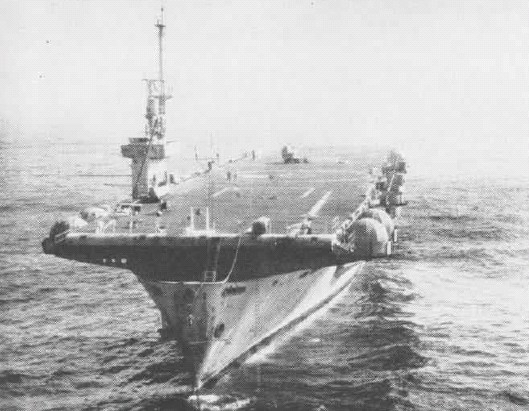 The former U.S. escort carrier USS Makassar Strait (CVE-91) being used as an anchored missile target at the Pacific Missile Range in the late 1950s. The ship was anchored without crew some 90 km (53 mi) off Pt. Mugu (California, USA). The ship's electronics were operated by remote control. The carrier's task was to take direct hits from unarmed surface-launched missiles to gain data on their performance.